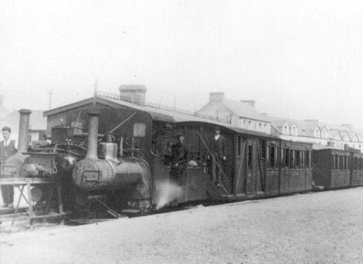 Lartigue Monorail: Arriving in Ballybunion